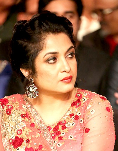 Actress Ramya Krishnan at the IIFA Utsavam awards 2016 event held at Hyderabad, India.